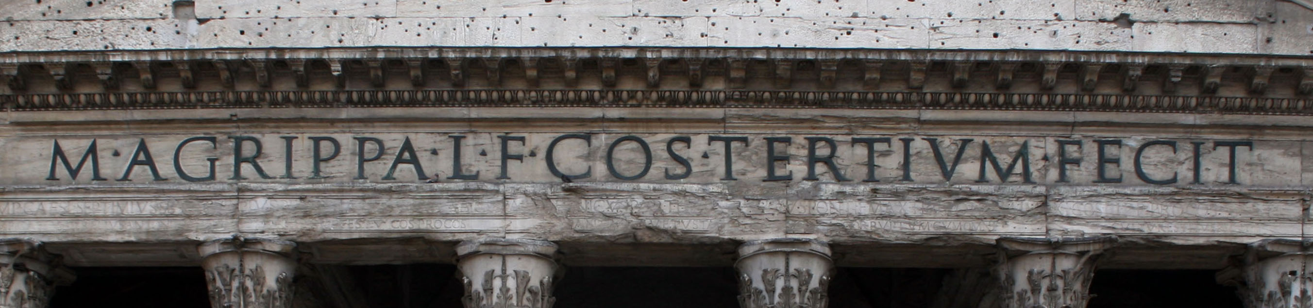 Pantheon à Rome. Agrippa's inscription cut off by user:Sailko